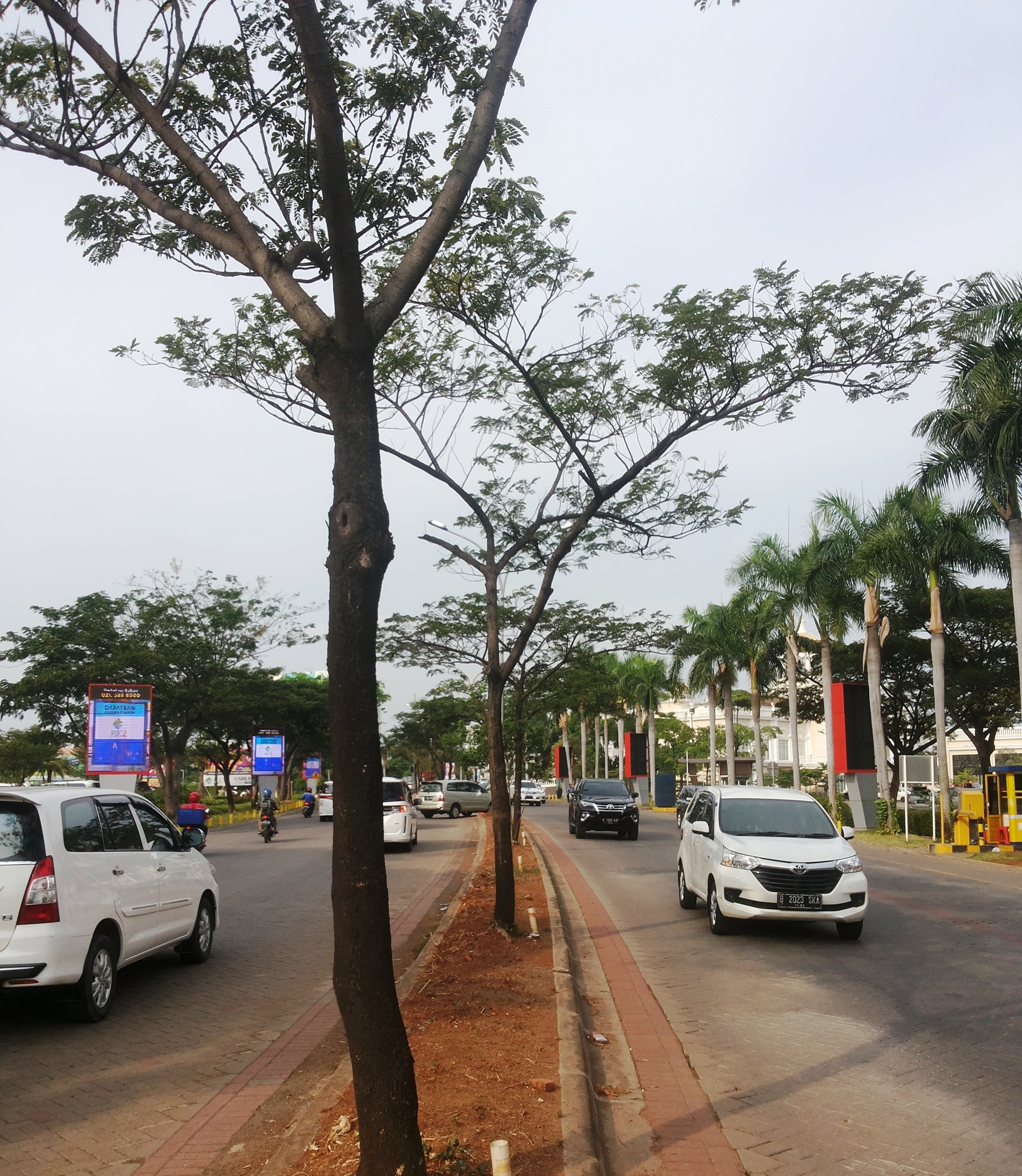 A road at Pantai Indah Kapuk in Jakarta